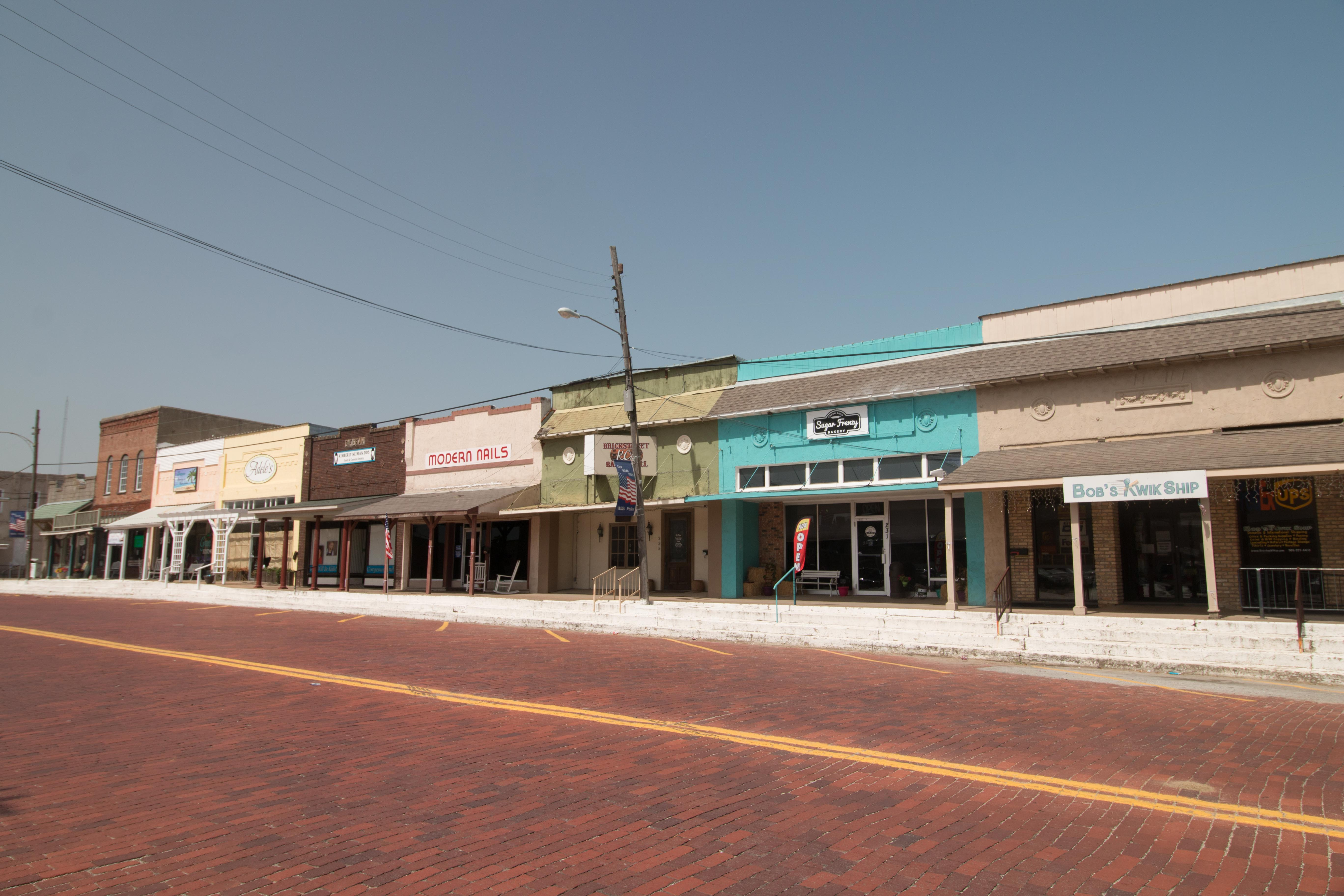 Downtown Wills Point, Texas